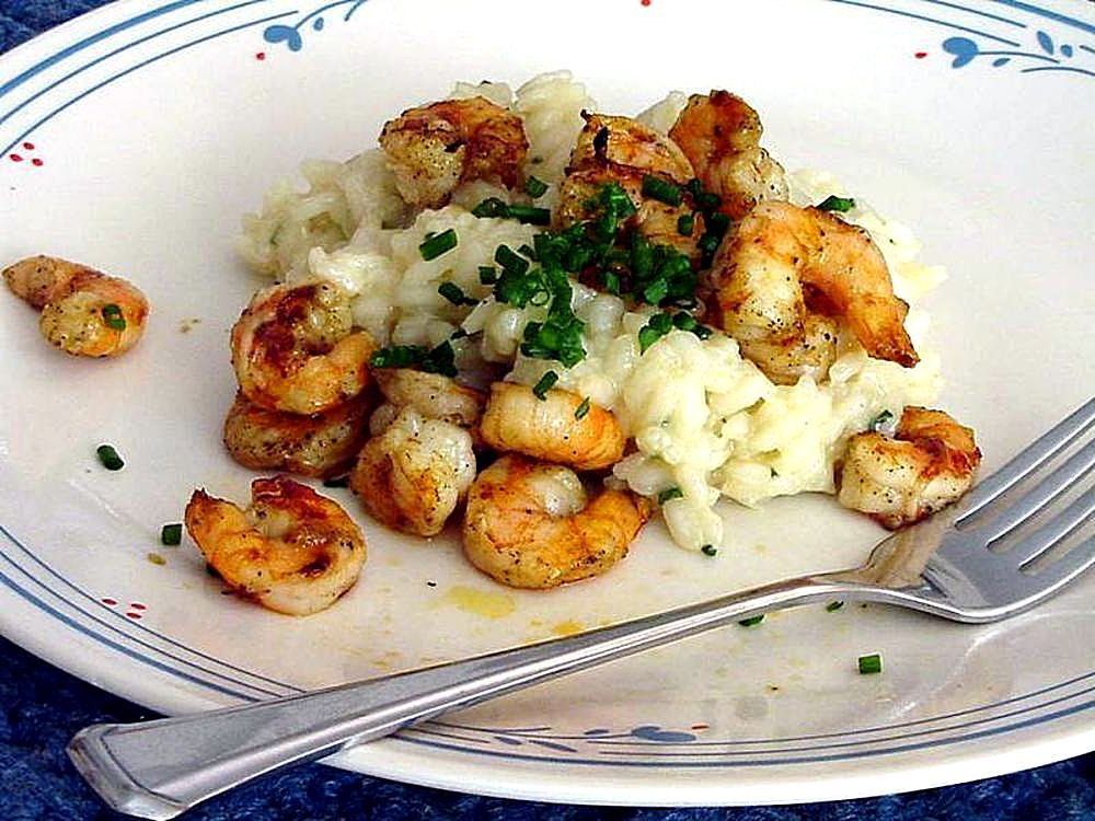 Image title: Grilled shrimp with lemon chive rosotto Image from Public domain images website